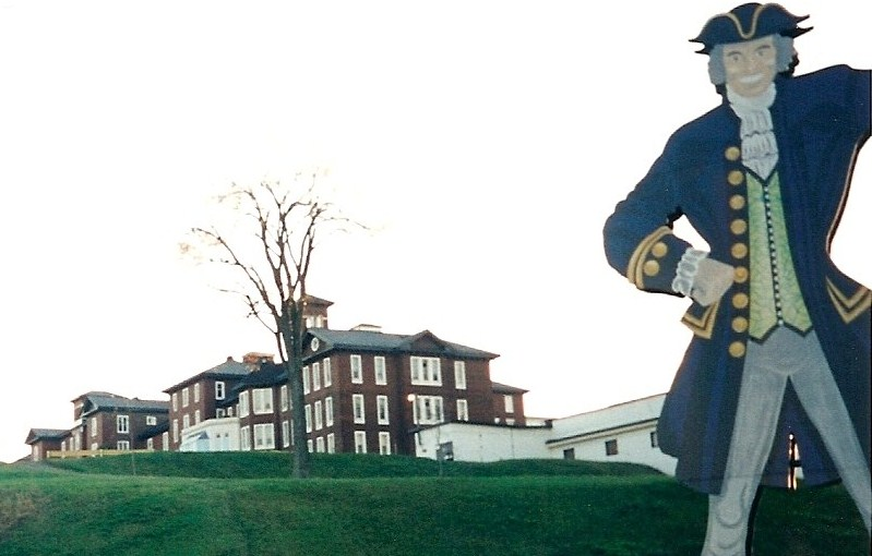 This photo of the Centracare Hospital was taken very shortly before it was demolished. the Loyalist man in the foreground was in the parking lot entrance to Reversing Falls Restaurant.